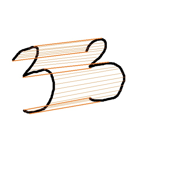 Comparison of extremums in the signature recognition problem.